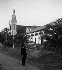 Mission San Jose de Guadalupe circa 1900. Photograph by Keystone-Mast.